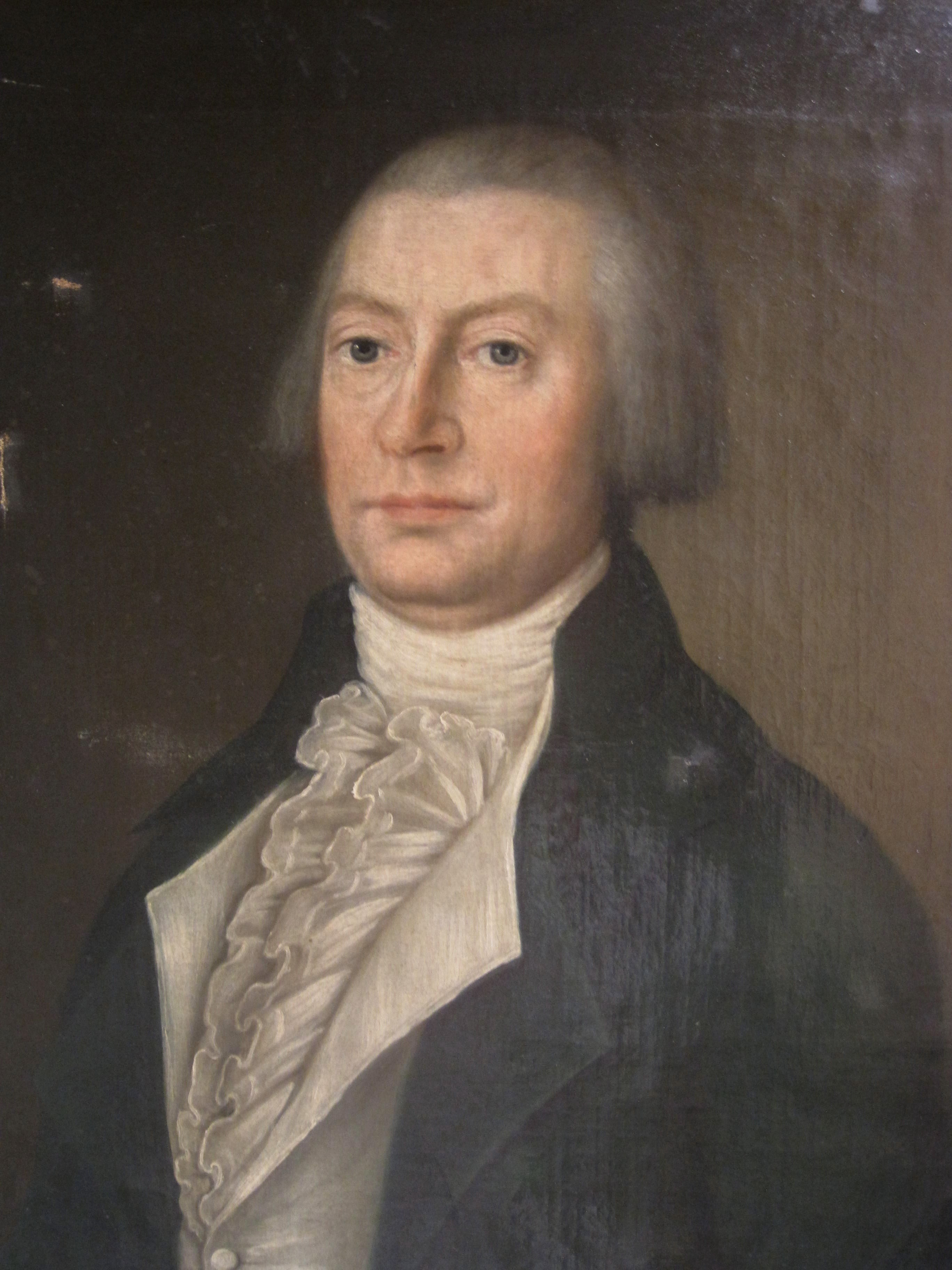 Johan Henric Engelhart (1759-1832), professor of practical medicine at Lund University.